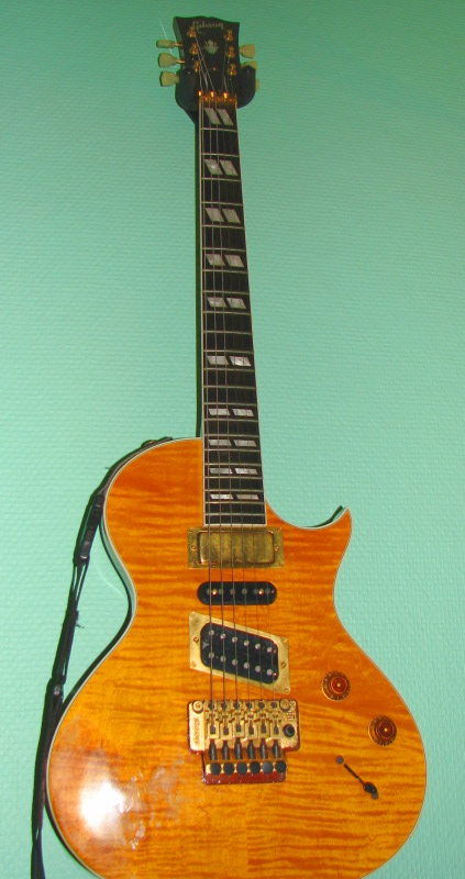 Gibson Nighthawk Standard 3 pickup model with floyd rose (model ST-3)